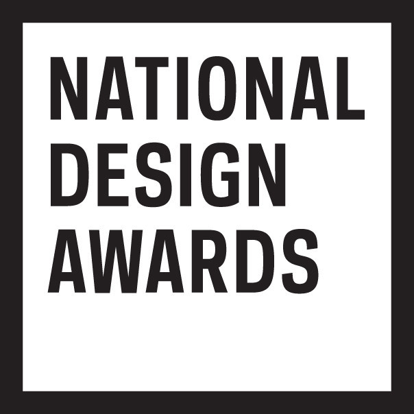 (PRNewsfoto/Stamen Design)